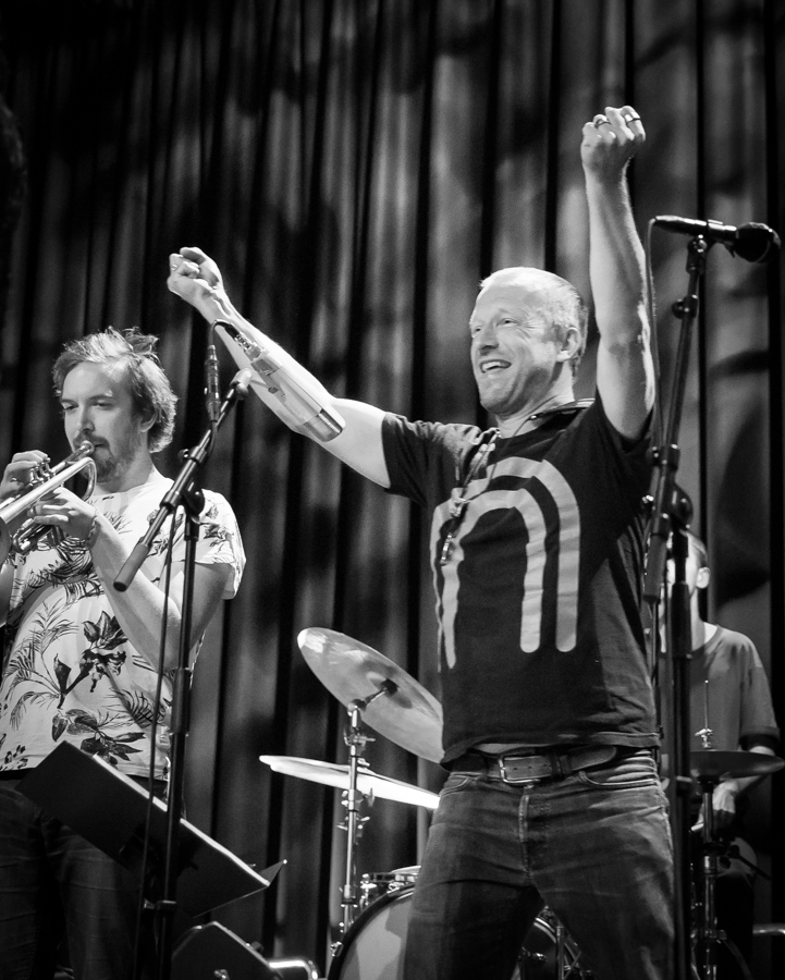 Mats Gustafsson performs with Fire! Orchestras at the stage of Sentralen. The concert was part of the Oslo Jazz Festival in Norway and took place on 18. August 2016. Lineup: Mats Gustafsson (saxophone) Johan Berthling (bass guitar) Andreas Werliin (drums) Mariam Wallentin (vocal) Sofia Jernberg (vocal)